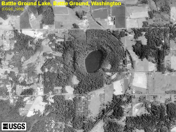 Depicted place: Battle Ground Lake State Park